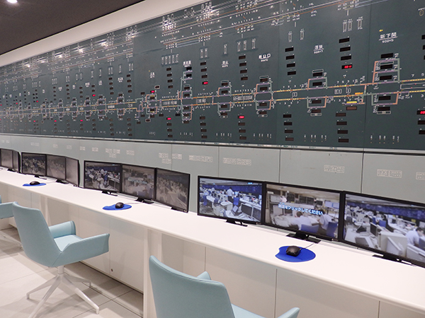 京都鉄道博物館に再現された新幹線総合指令所